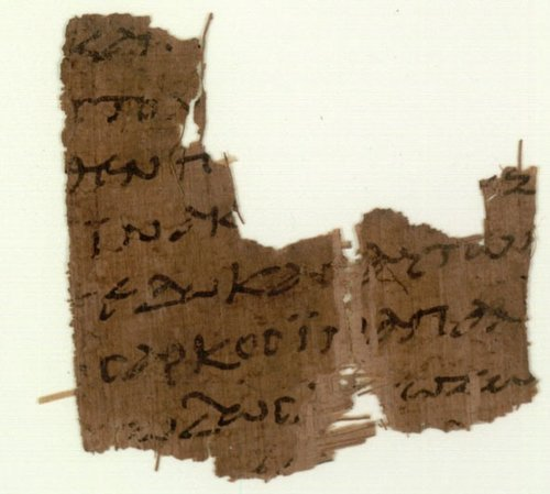 Papyrus 107 verso